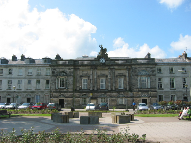 The Old Academy in Rose Terrace, Perth, Scotland. Photo taken by Dudesleeper on June 7, 2003.